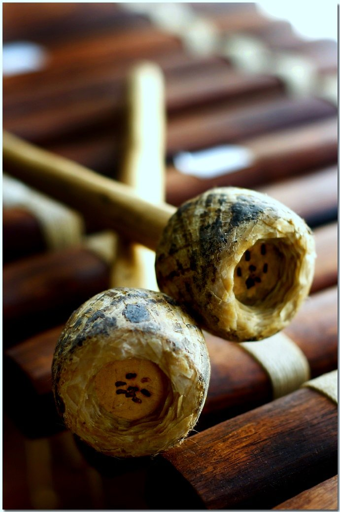 And more love.